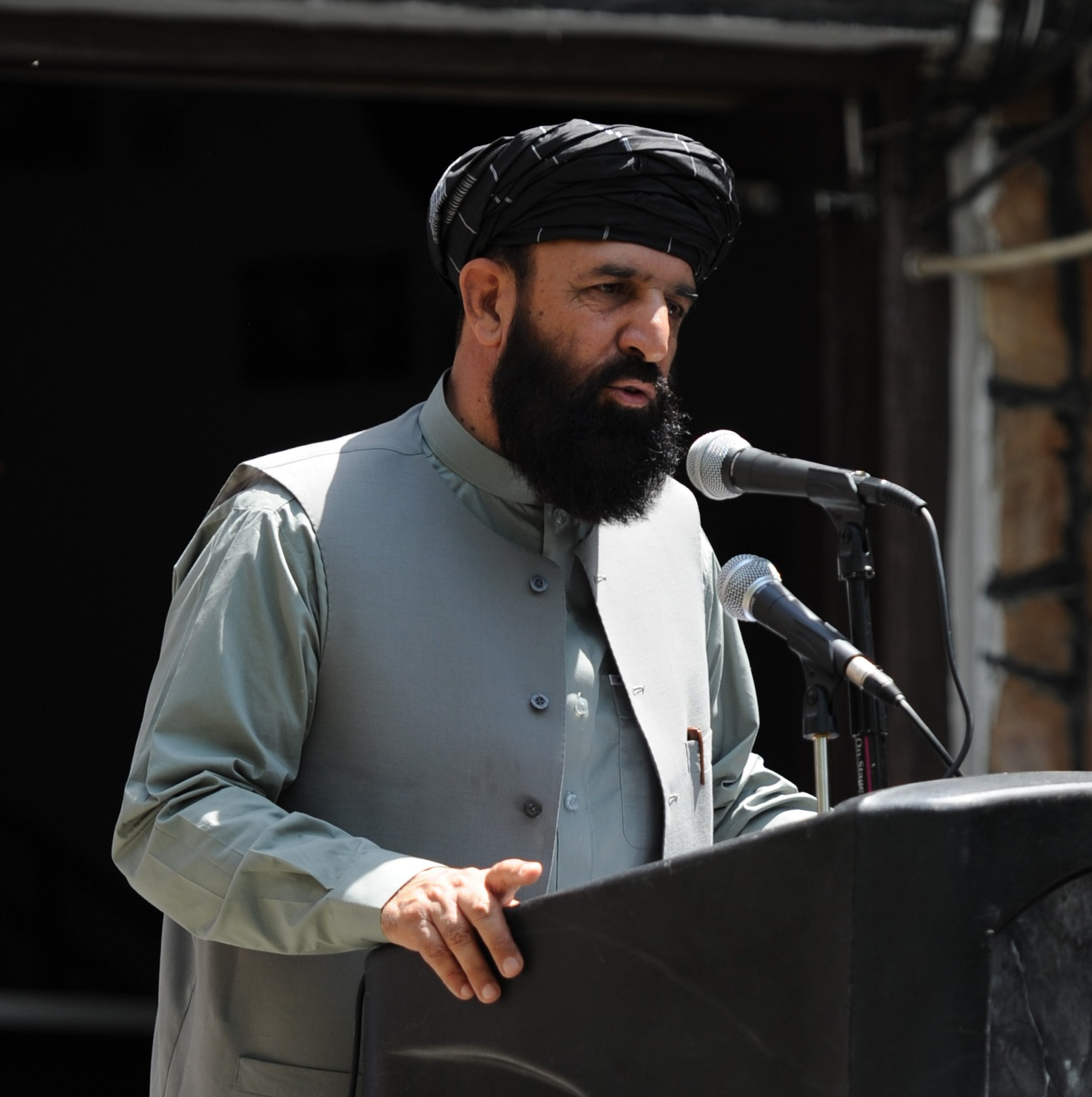 Ghazni Governor Musa Khan makes remarks at the opening of the Ghazni 2013 in Images photo exhibit at the Afghan Cultural House in Kabul, Afghanistan.